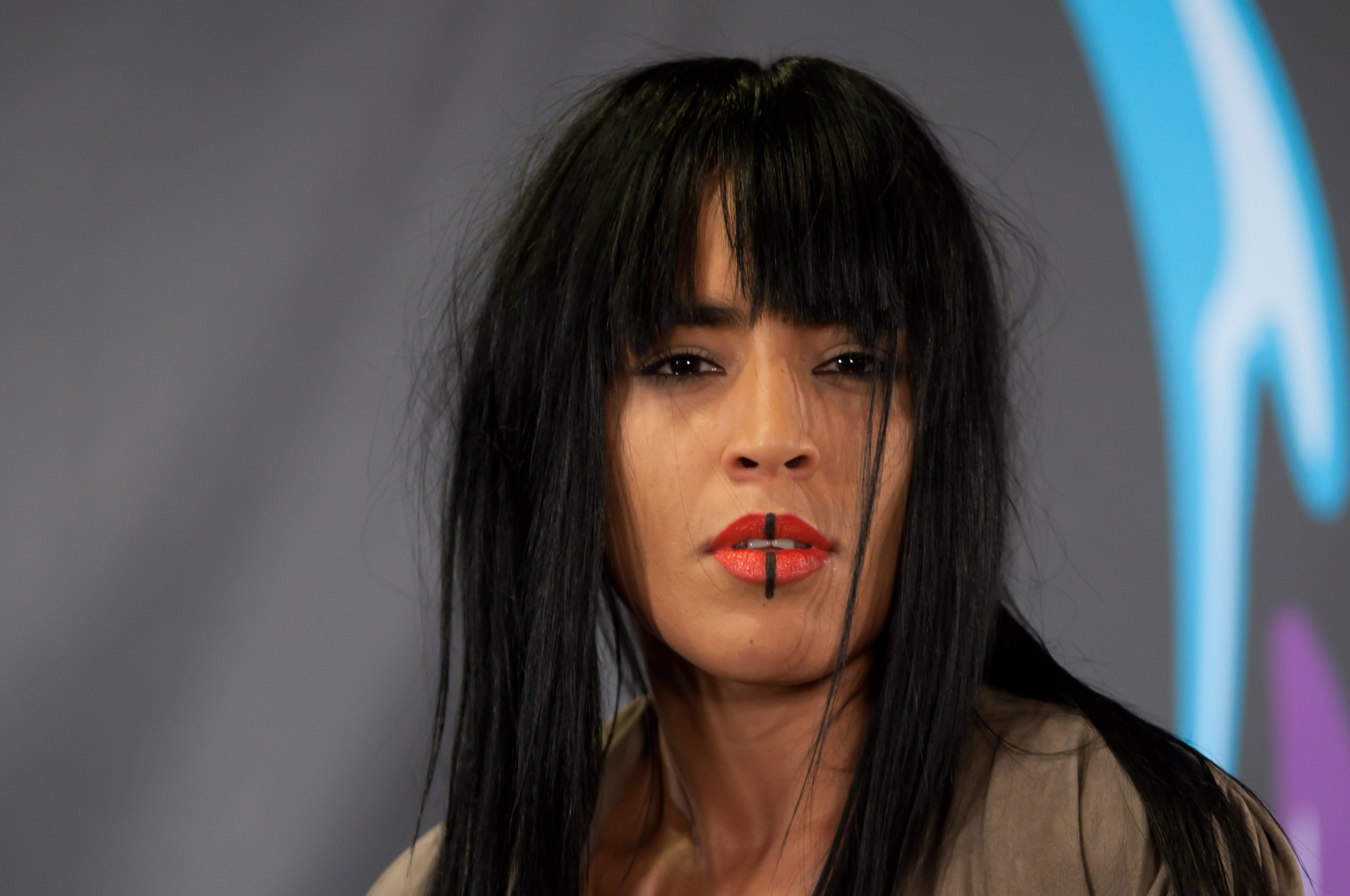 Loreen 2010 at a press conference for Melodifestivalen 2011